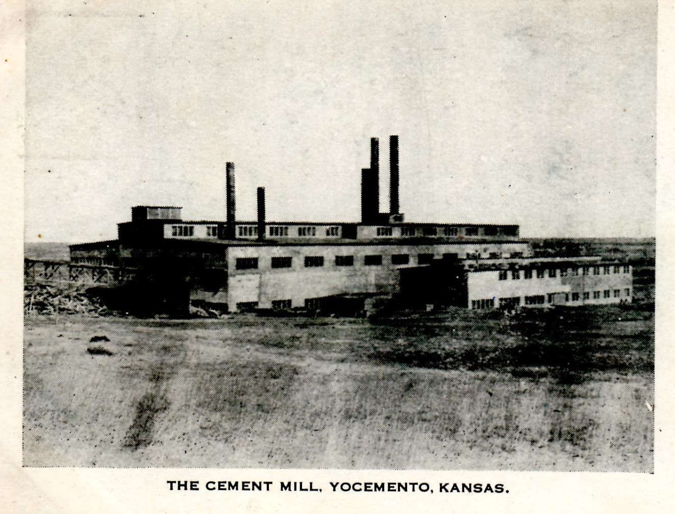 The Cement Mill at Yocemento, Kansas. Scanned image from a Penny Post Card. The buildings shown in the picture were dismantled before 1920.